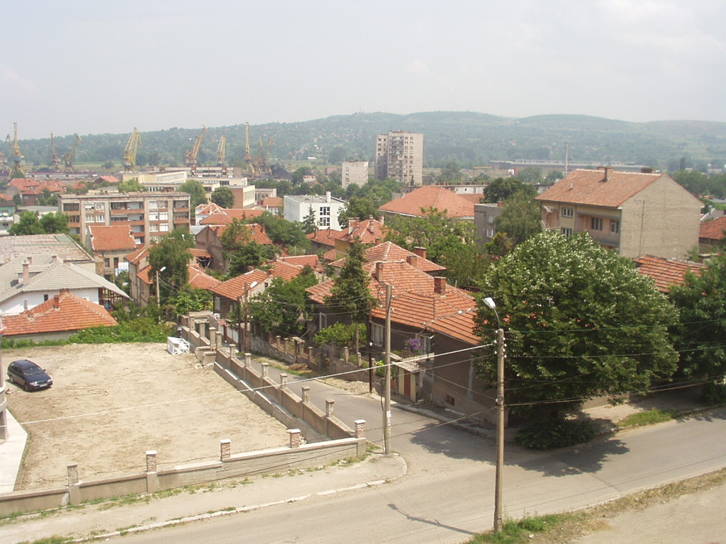 Lom, Bulgaria